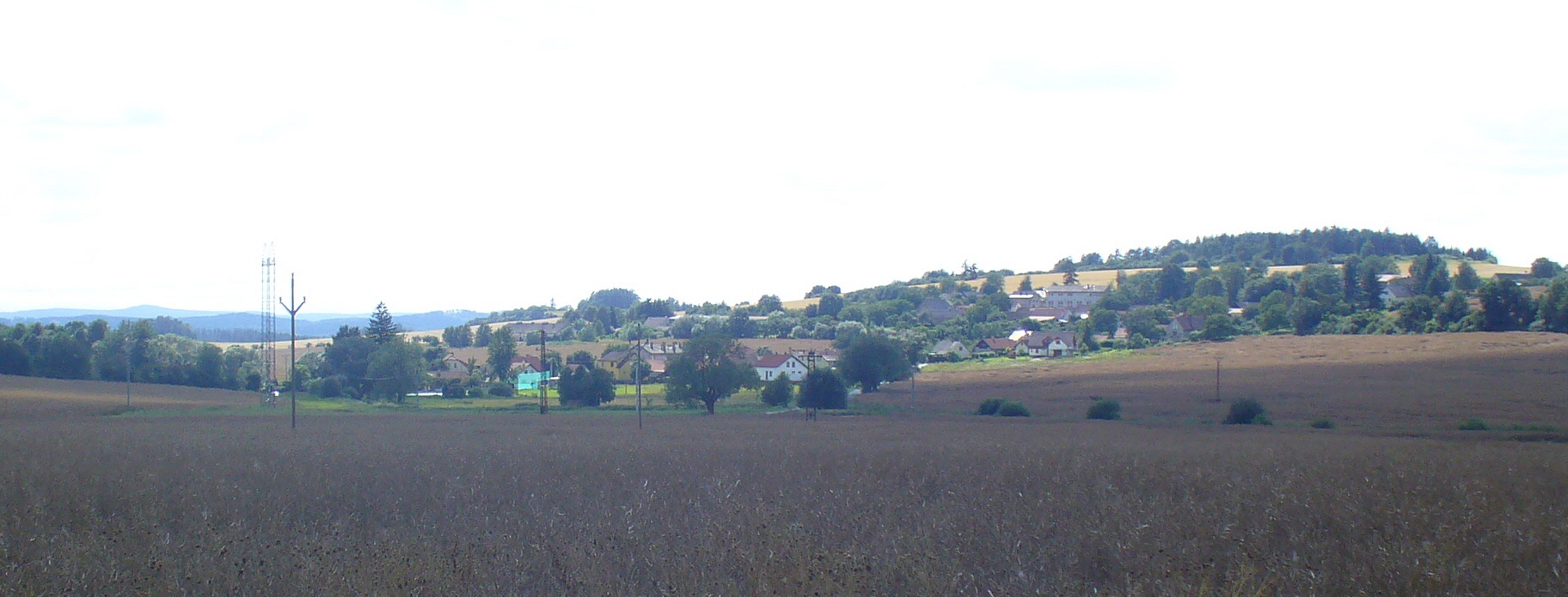 Village Zahořany, Kovářov, Písek District, Czech Republic